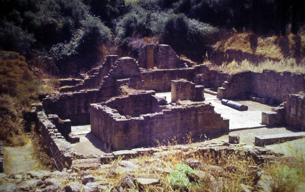 Miróbriga - Termas - Santiago do Cacém - Portugal